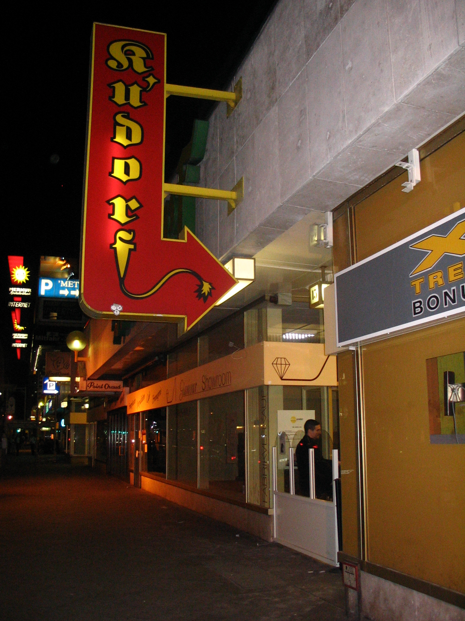 Entrance sign of the Ku’dorf (later Q-Dorf and Q-Berlin) nightclub in Berlin. In its day it was the largest nightclub (Kneipen) area of Berlin.